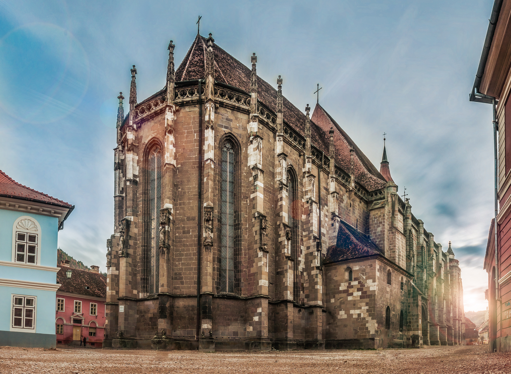 Biserica Neagră